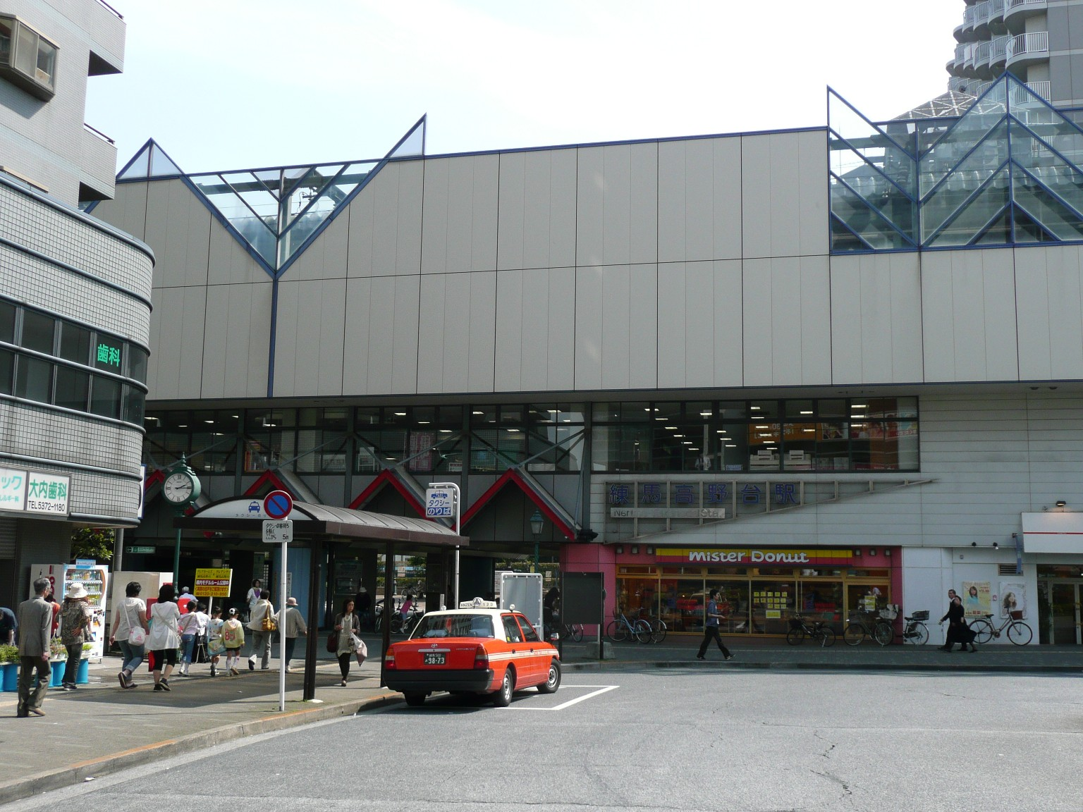 North entrance of Nerima-Takanodai on the Seibu Ikebukuro Line